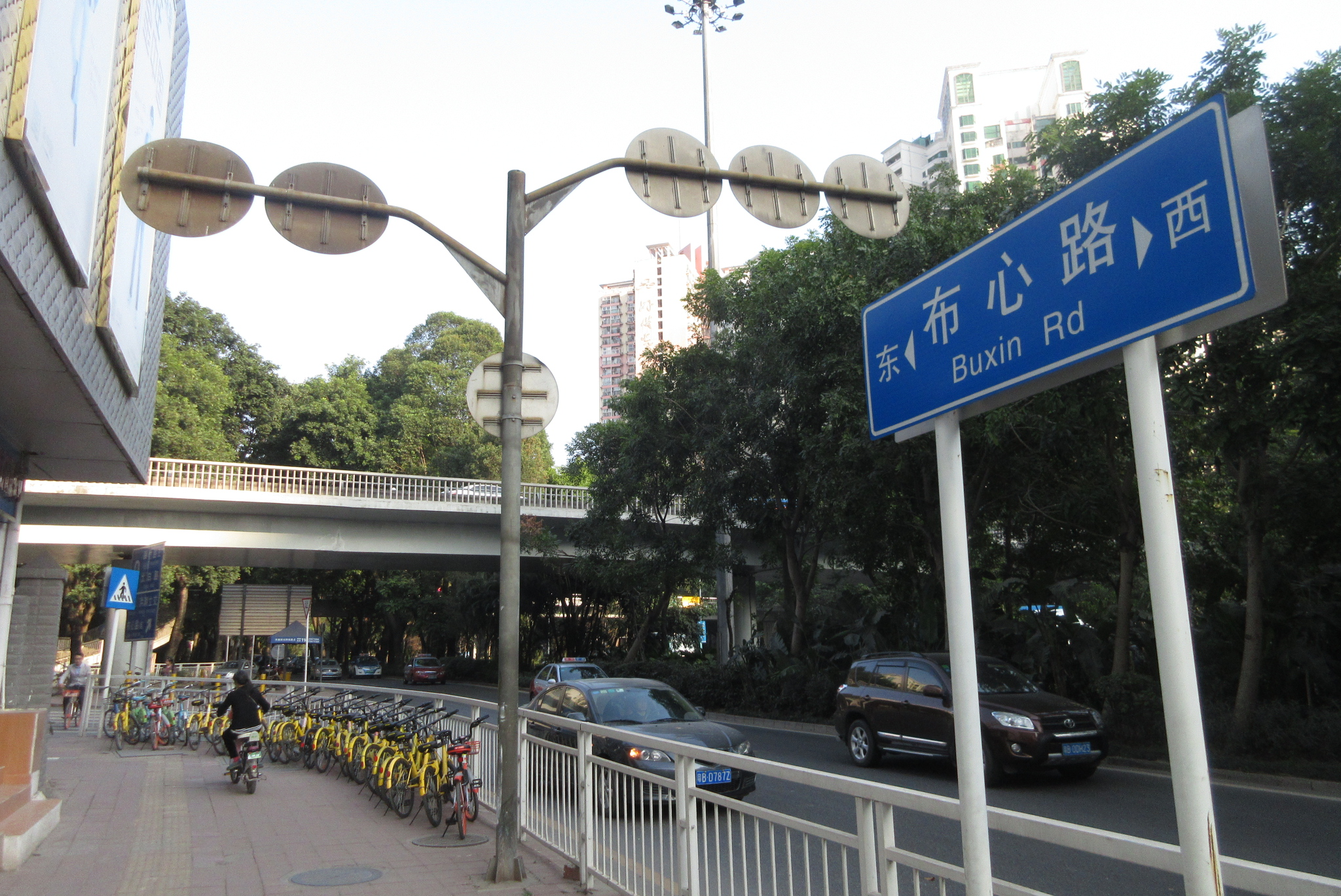 SZ 深圳 Shenzhen 羅湖 Luohu District 布心路 Buxin Road footbridge stairs in December 2017